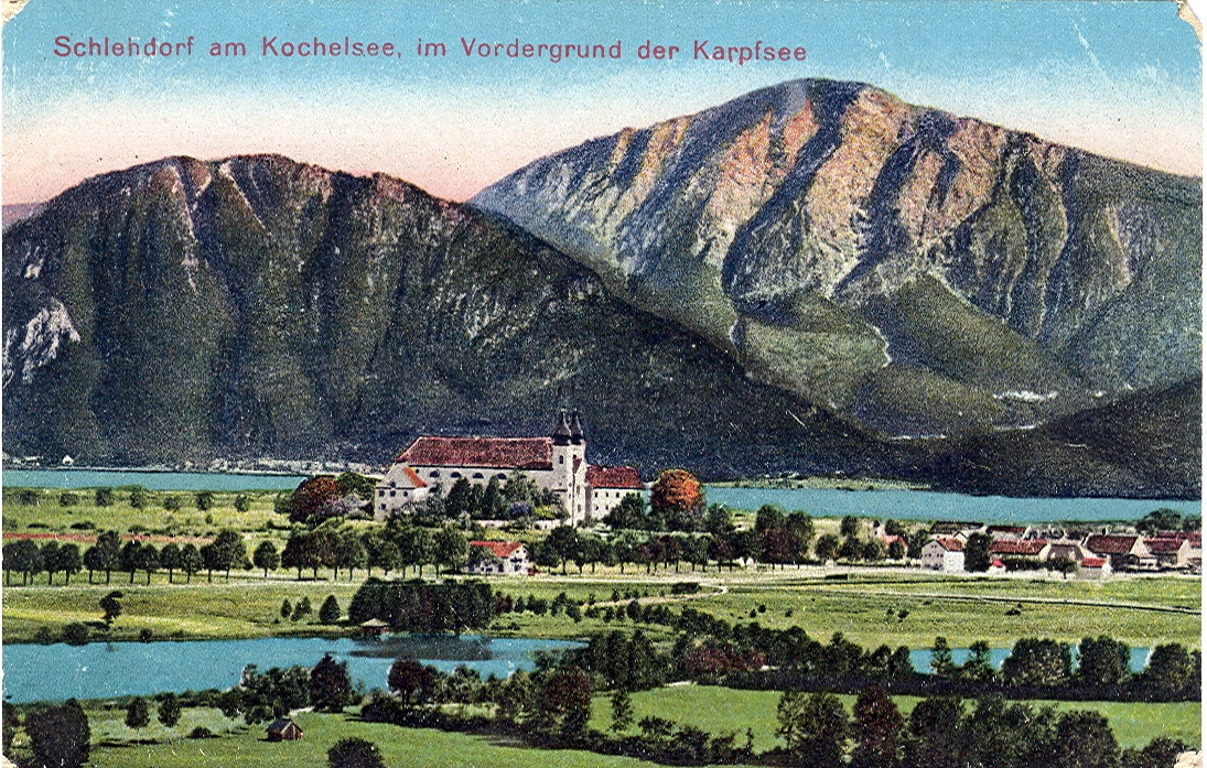 Postcard, undated ( ca.1914 ). Title: "Schlehdorf at lake Kochel, in front the Karpf lake."